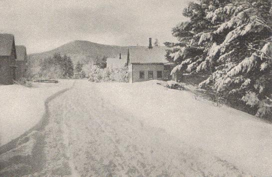 Burnt Meadow Mountain, East Brownfield, Maine